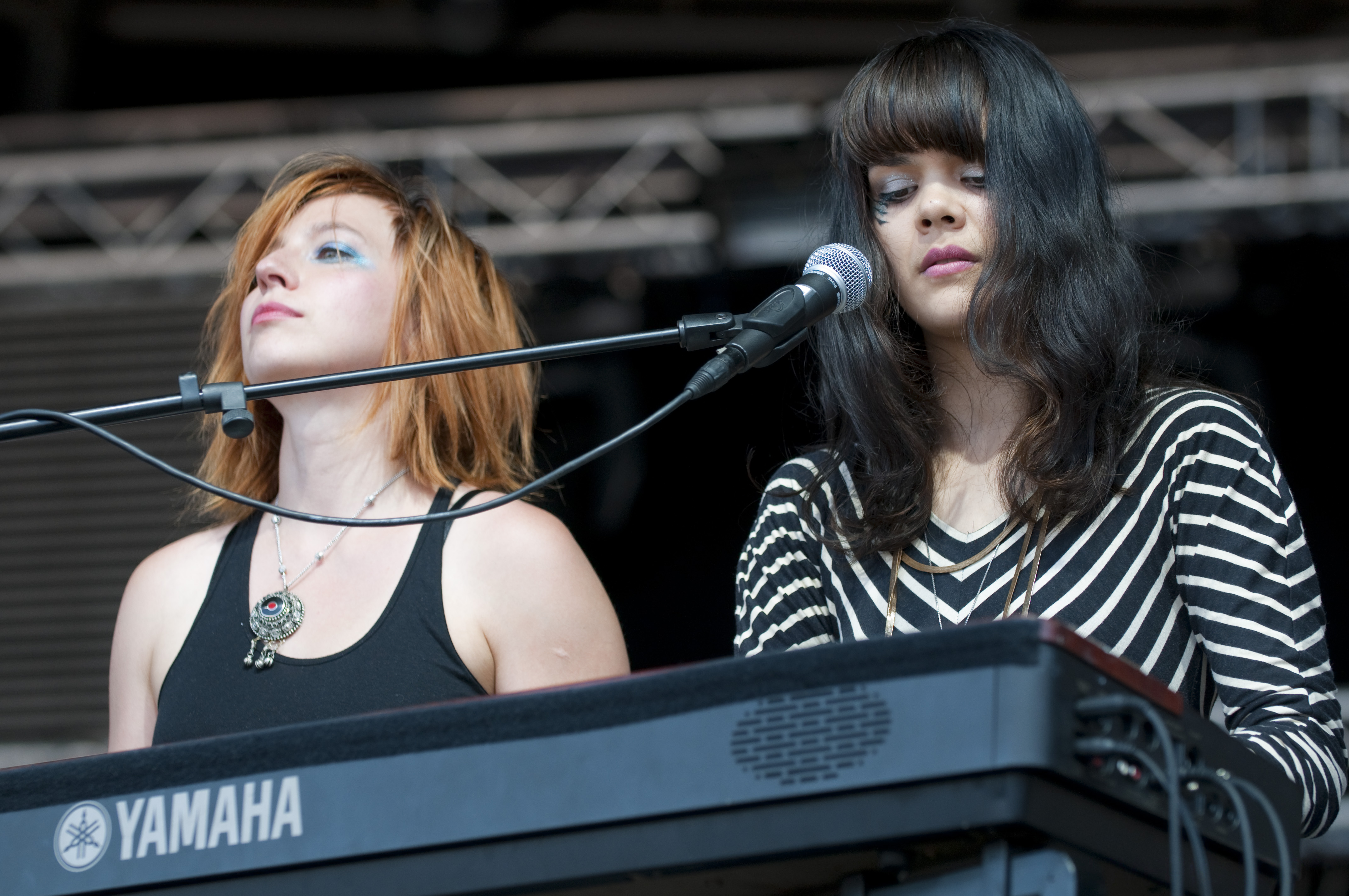 Bat for Lashes